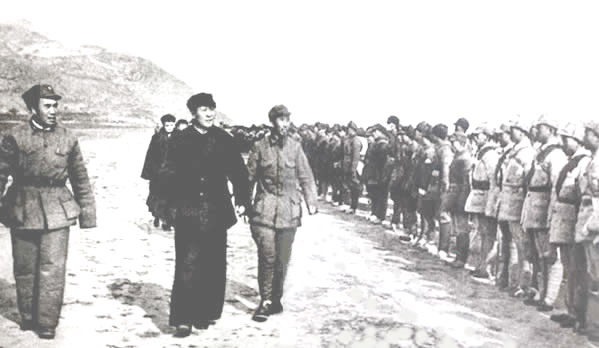 Mao Zedong, Zhu De on inspection of Chinese Red Army 中央军委主席毛泽东（前左2）、朱德总司令（前左1）、在王震旅长的陪同下检阅部队。